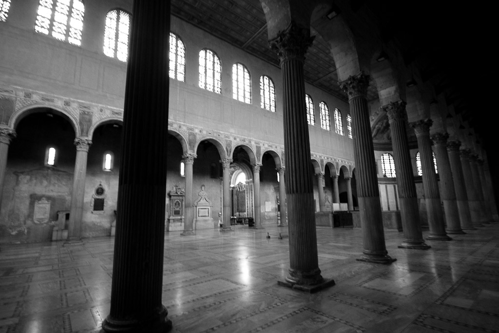 Santa Sabina, Roma, interior